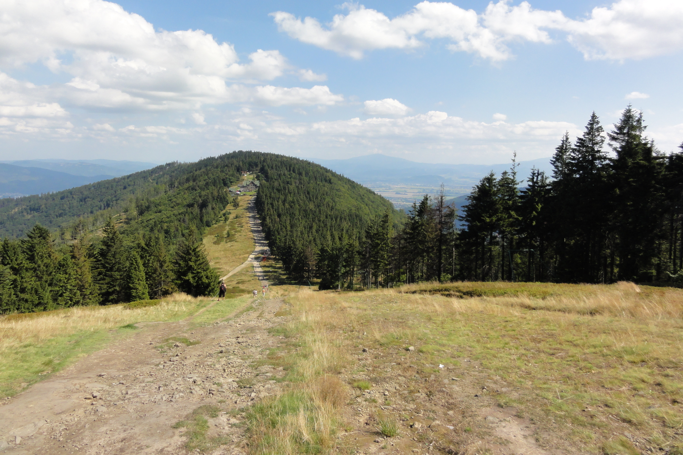 Klimczok, View of the Magura